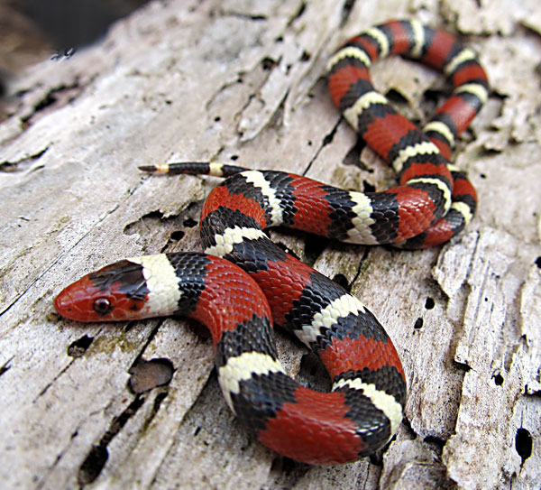 Juvenile Scarlet King Snake, Florida Locale